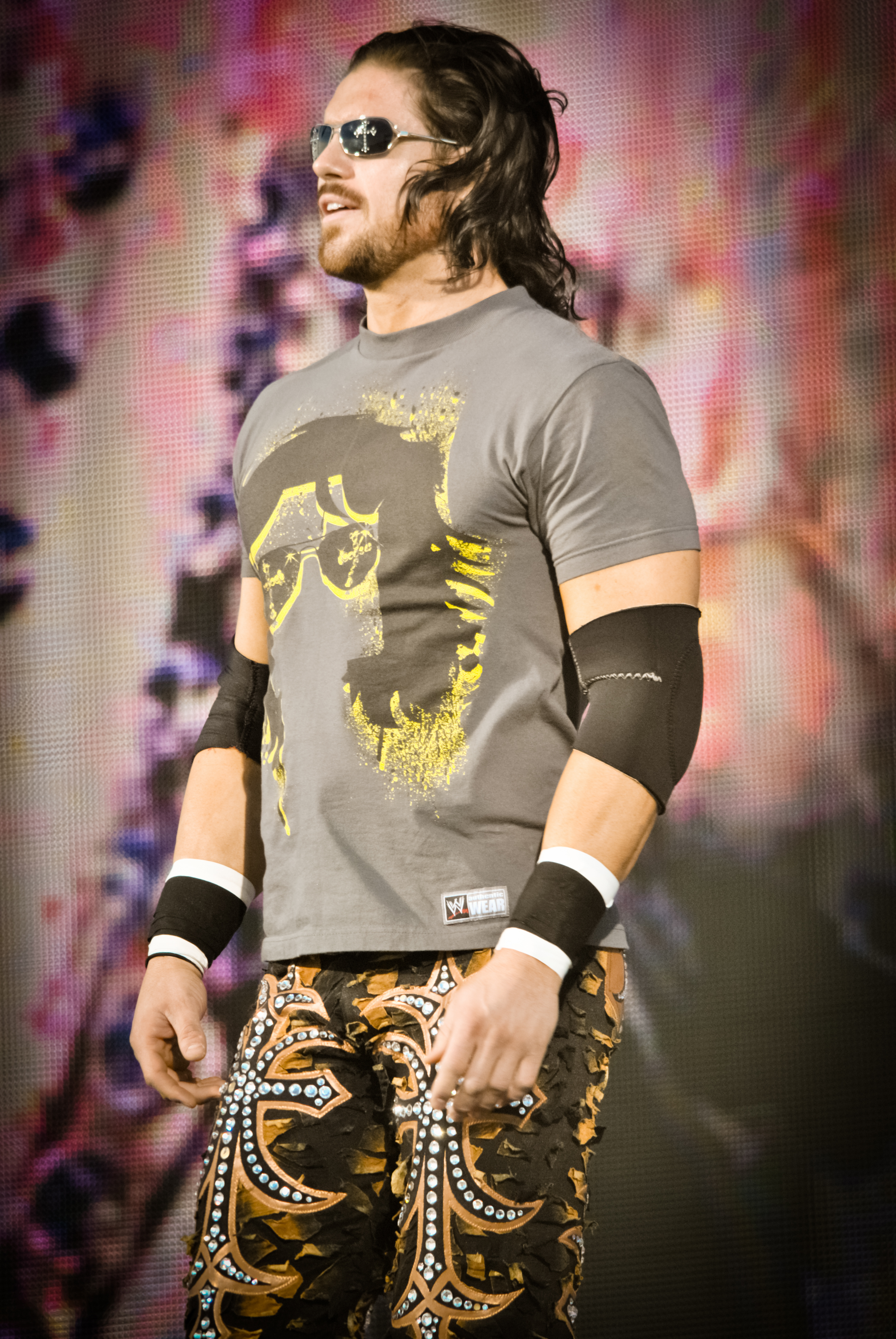 John Morrison at WWE's Tribute to the Troops on December 11, 2010 in Fort Hood, Texas.